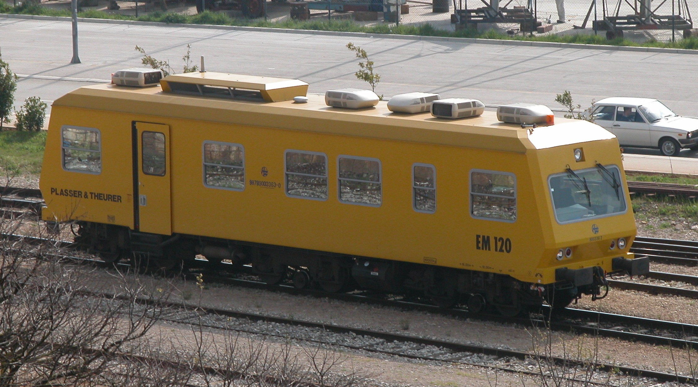 Plasser & Theurer EM 120 (HŽ 9003363) in Pula, Croatia